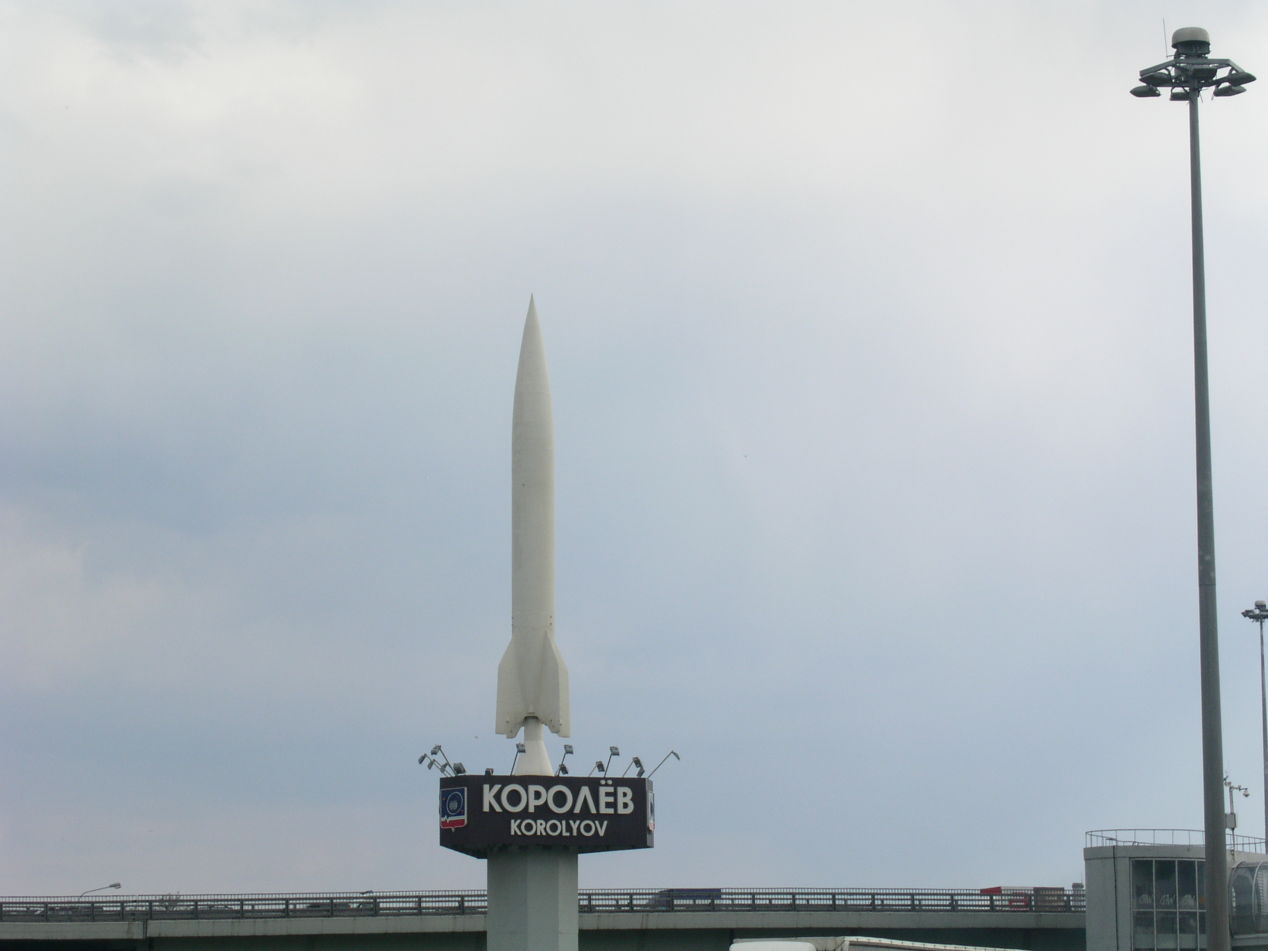 Soviet R-2 missile at Korolyov City of Moscow region